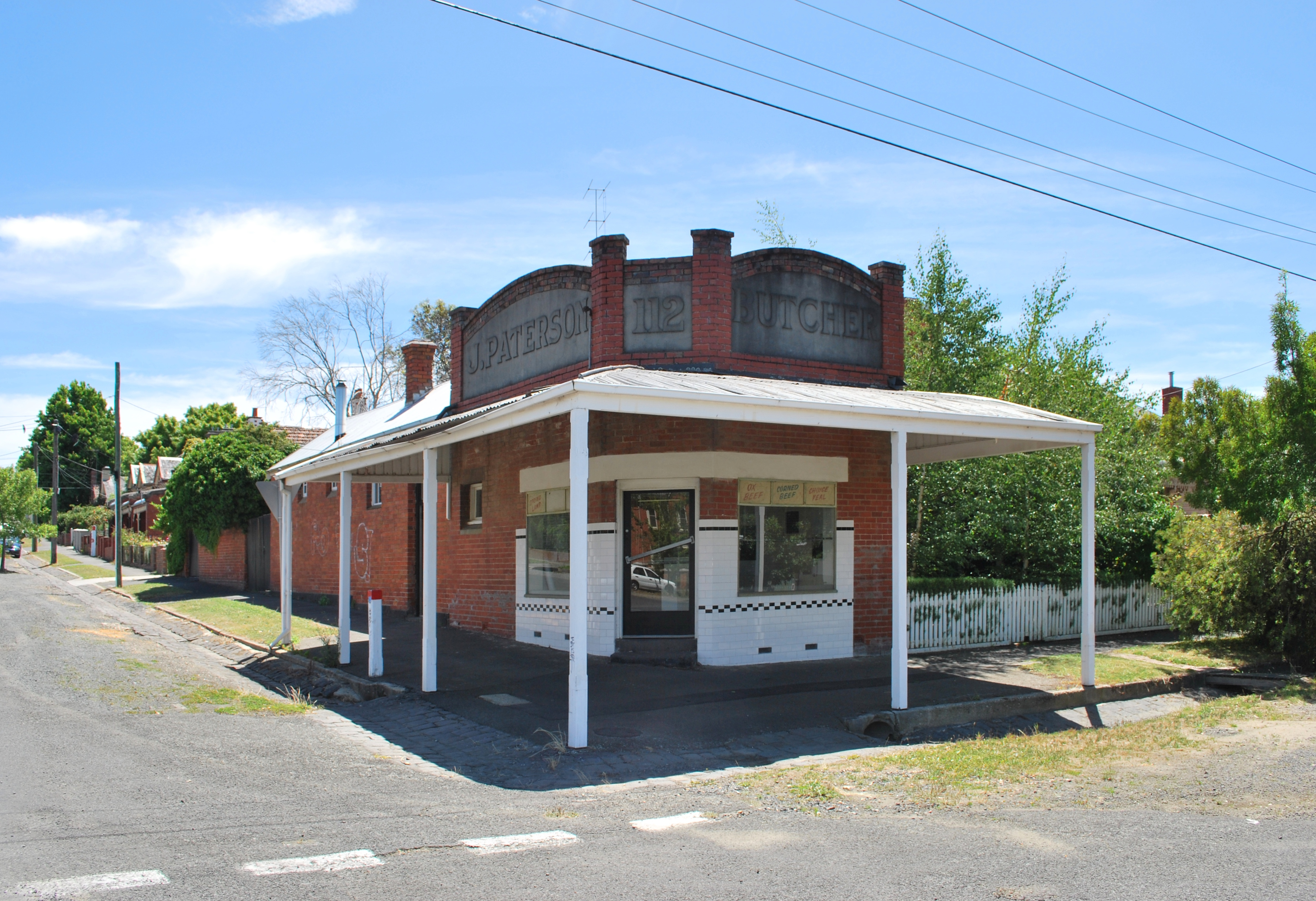 J Paterson Butchers in Soldiers Hill, Victoria